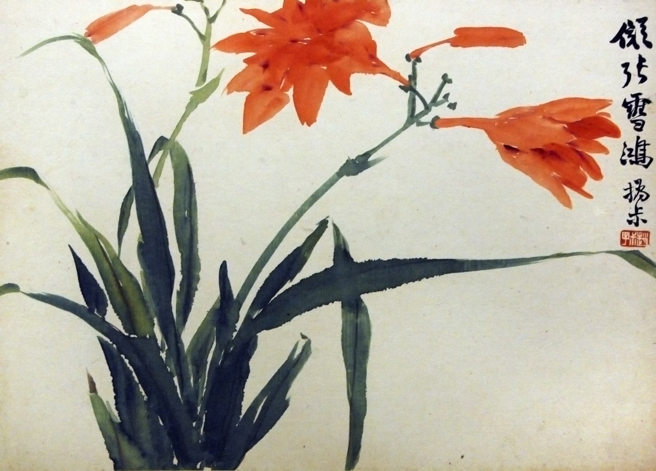 A leaf from the album "Flowers" by Zhao Zhiqian (1829-1884). This album was completed in the 9th year of the Xiangfeng reign (1859).